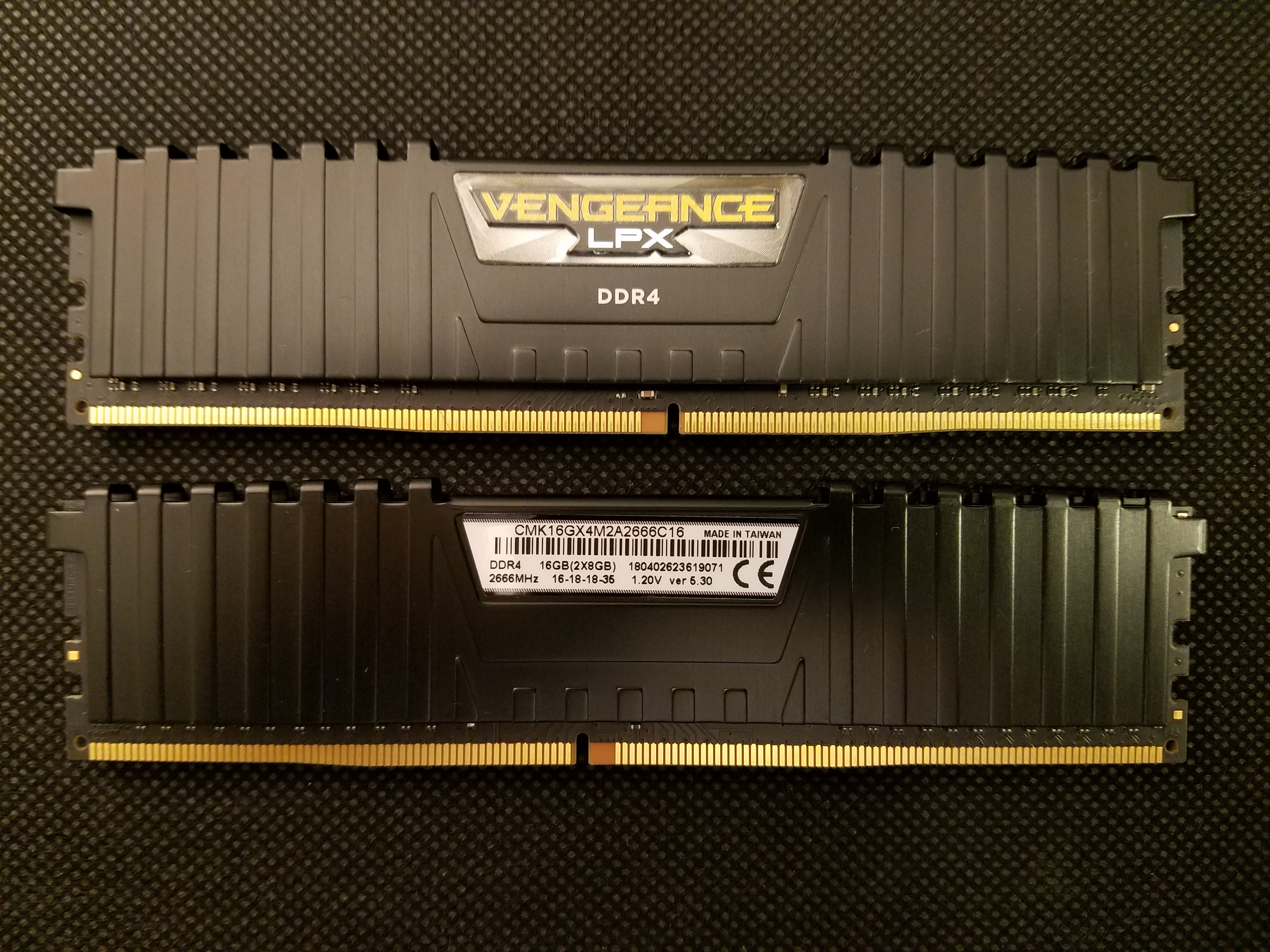 2 Corsair brand memory modules of 8GB each. They are of type DDR4 and work at 2666 MT/second, their latencies is 16-18-18-35 with a tension of 1.2V.